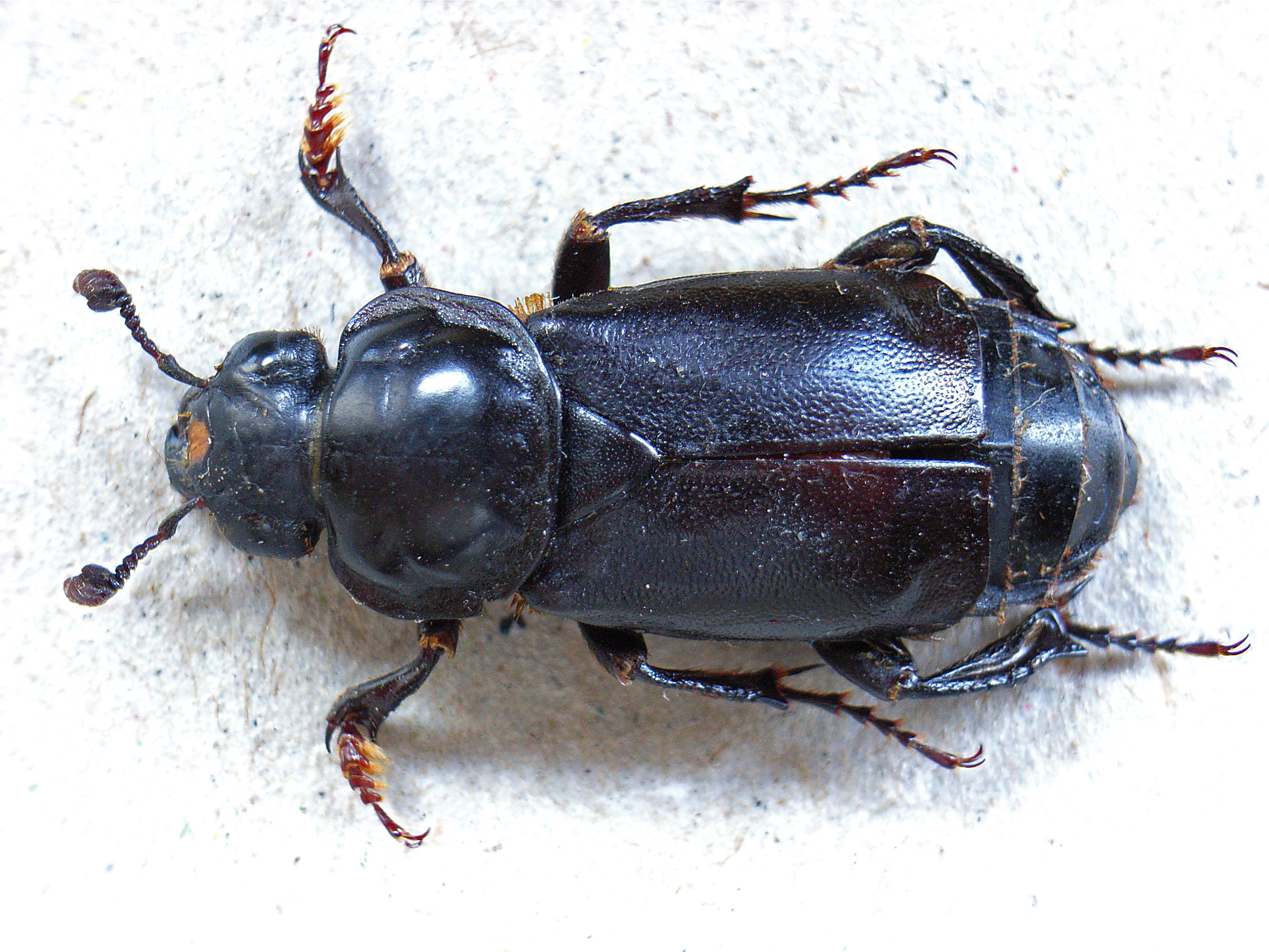 Please report references to kulacgmx.at.